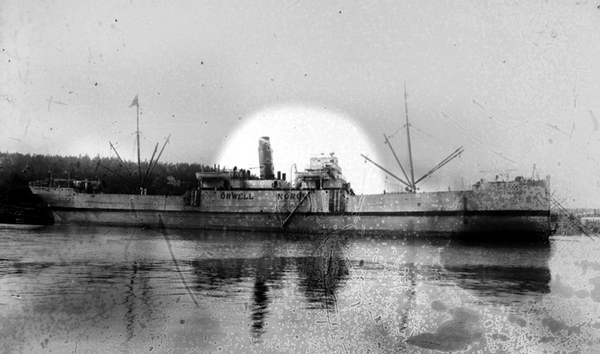 A/S Tønsbergs Hvalfangeri's whaling factory Orwell (1897)